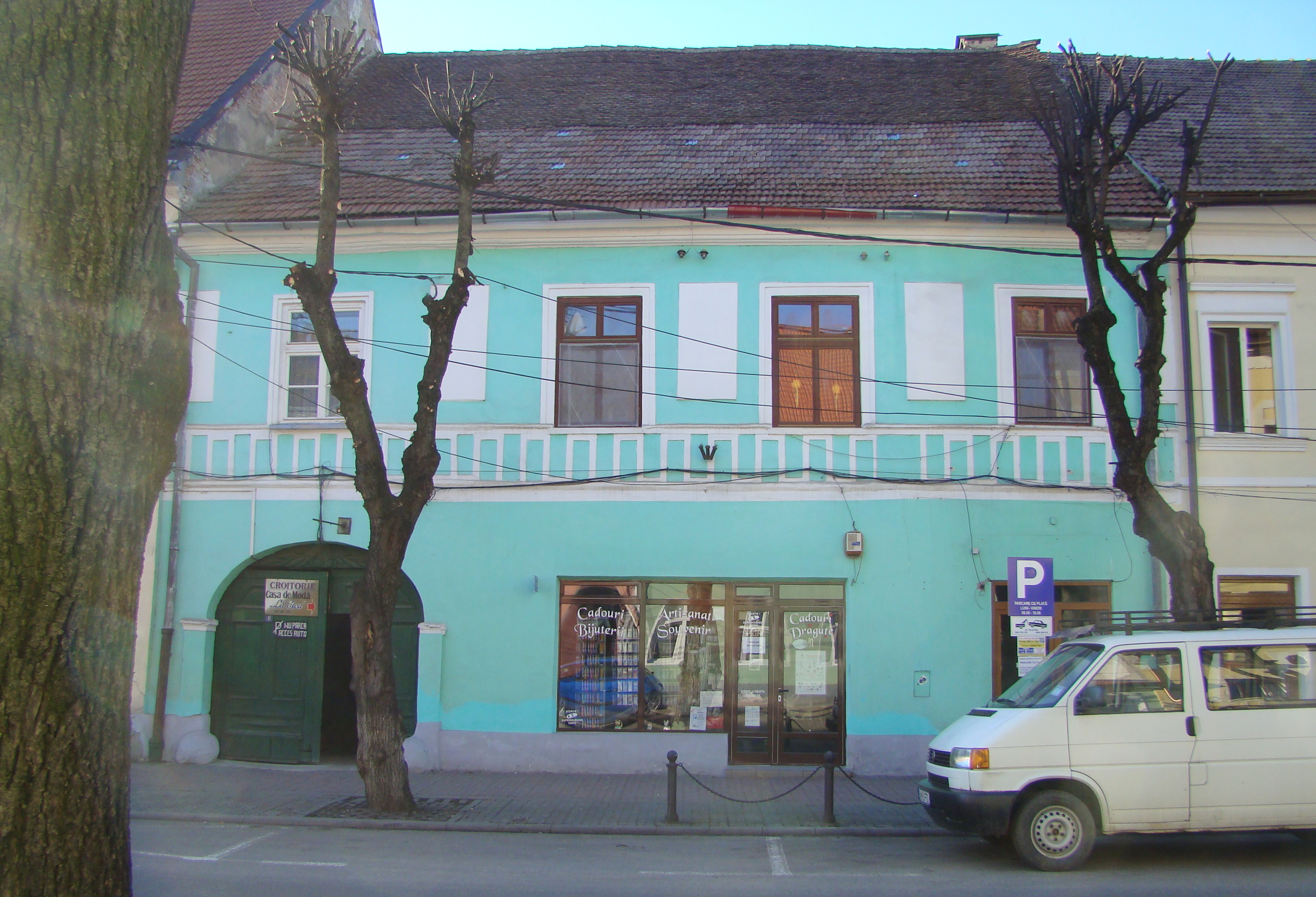 House, historic monument, in Bistriţa, Dornei street, number 9